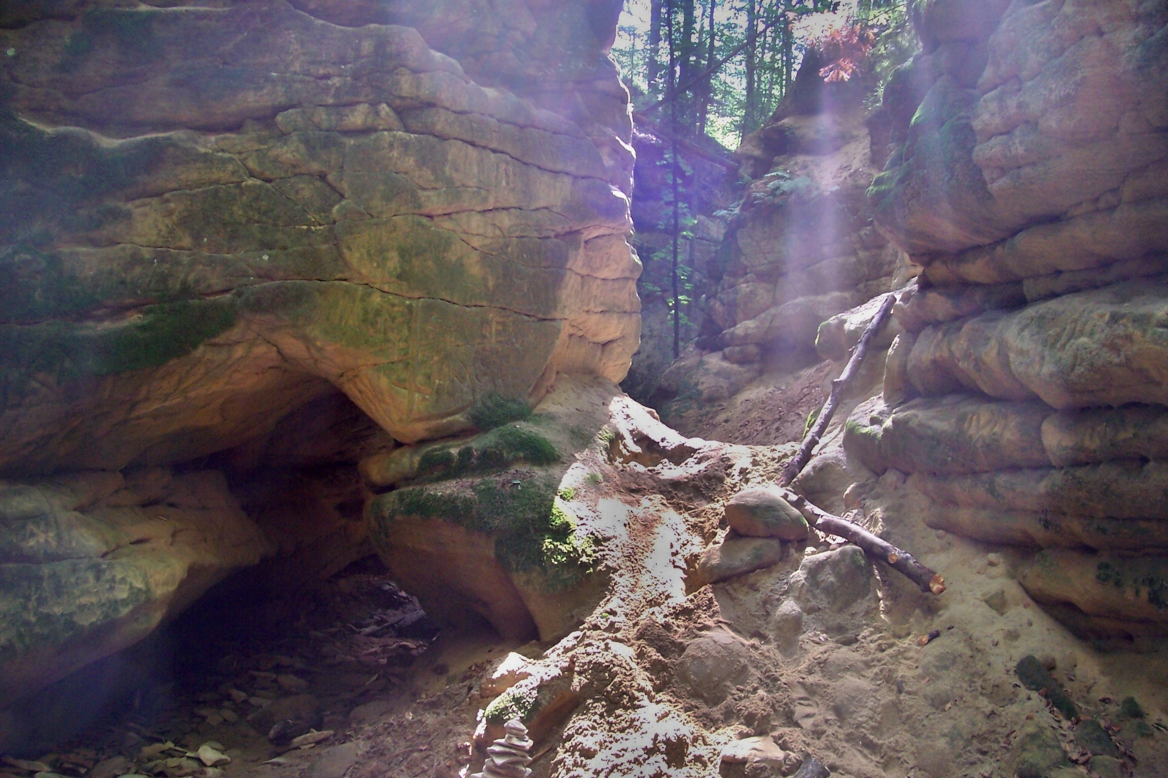 Pivnice (natural monument), Chrudim District, Czech Republic.